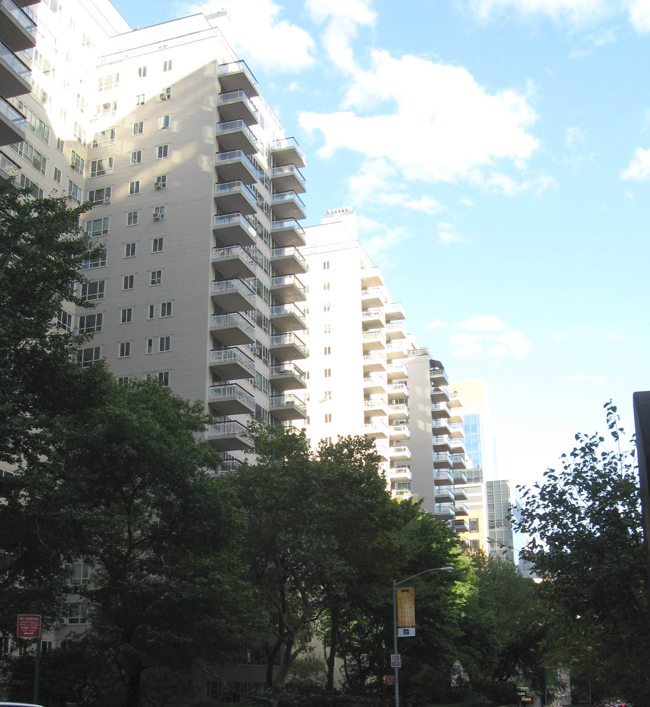 Looking east from Third Avenue along E65th Street at Manhattan House, on a sunny afternoon.